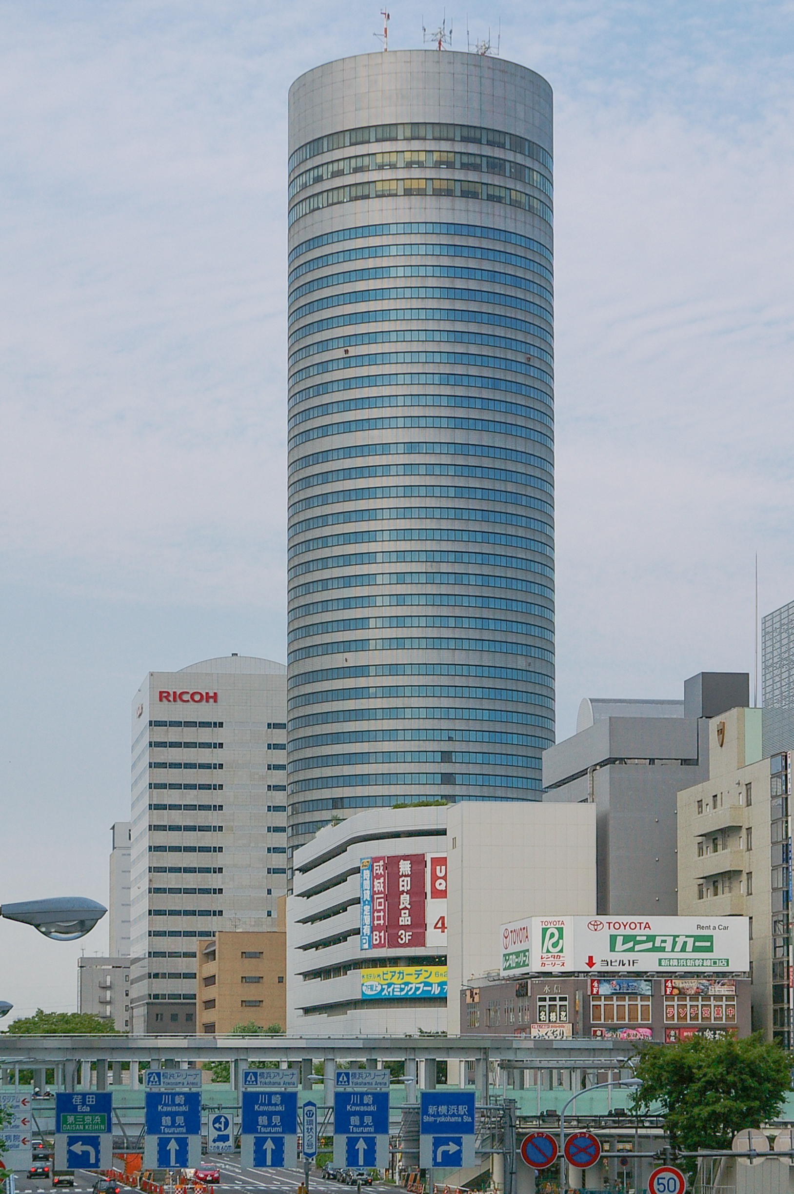 Photograph of the southwest view of Shin Yokohama Prince Hotel in Kohoku-ku, Yokohama, Kanagawa Prefecture, Japan.